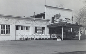 The store front of Lehman's Hardware in Kidron, Ohio, circa 1955